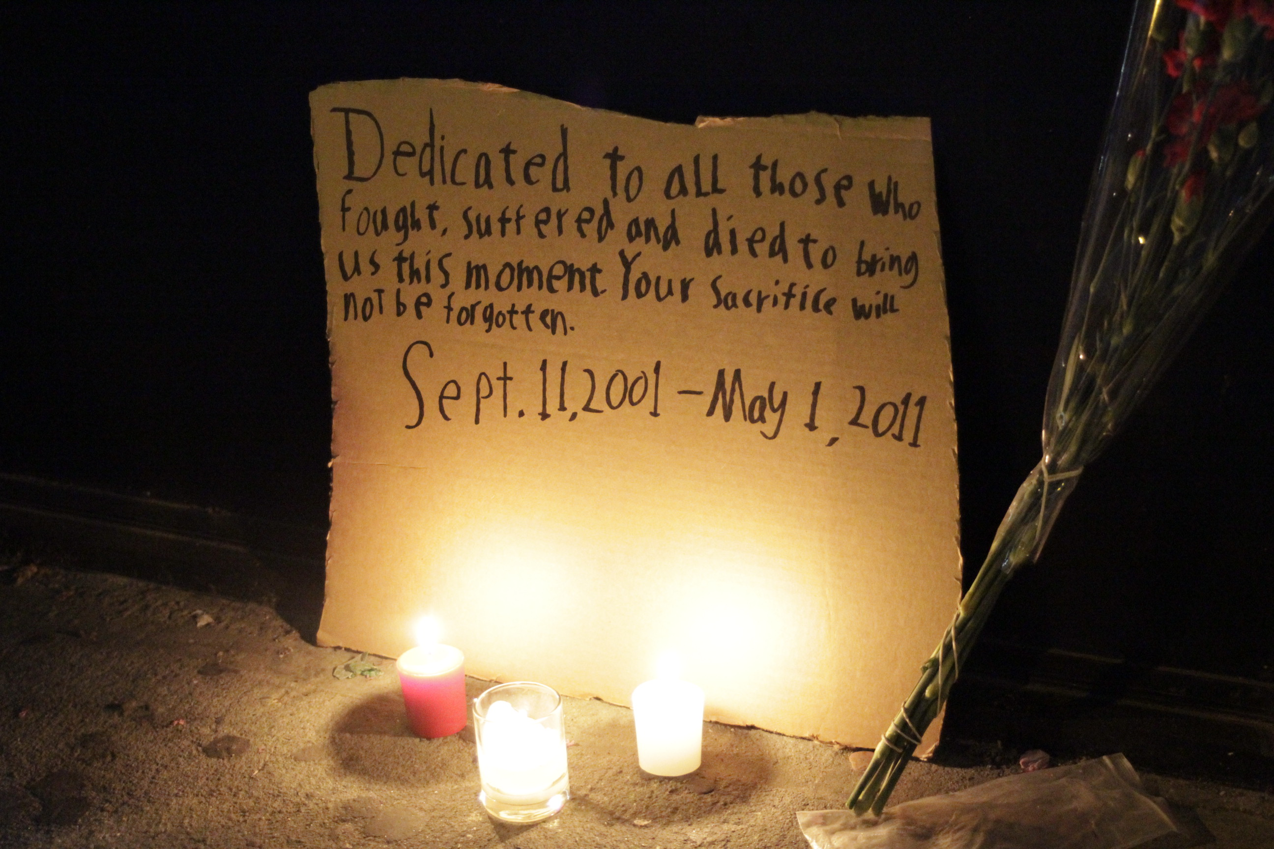 Memorial at Ground Zero on 5-2-2011, when the death of Osama bin Laden was announced.